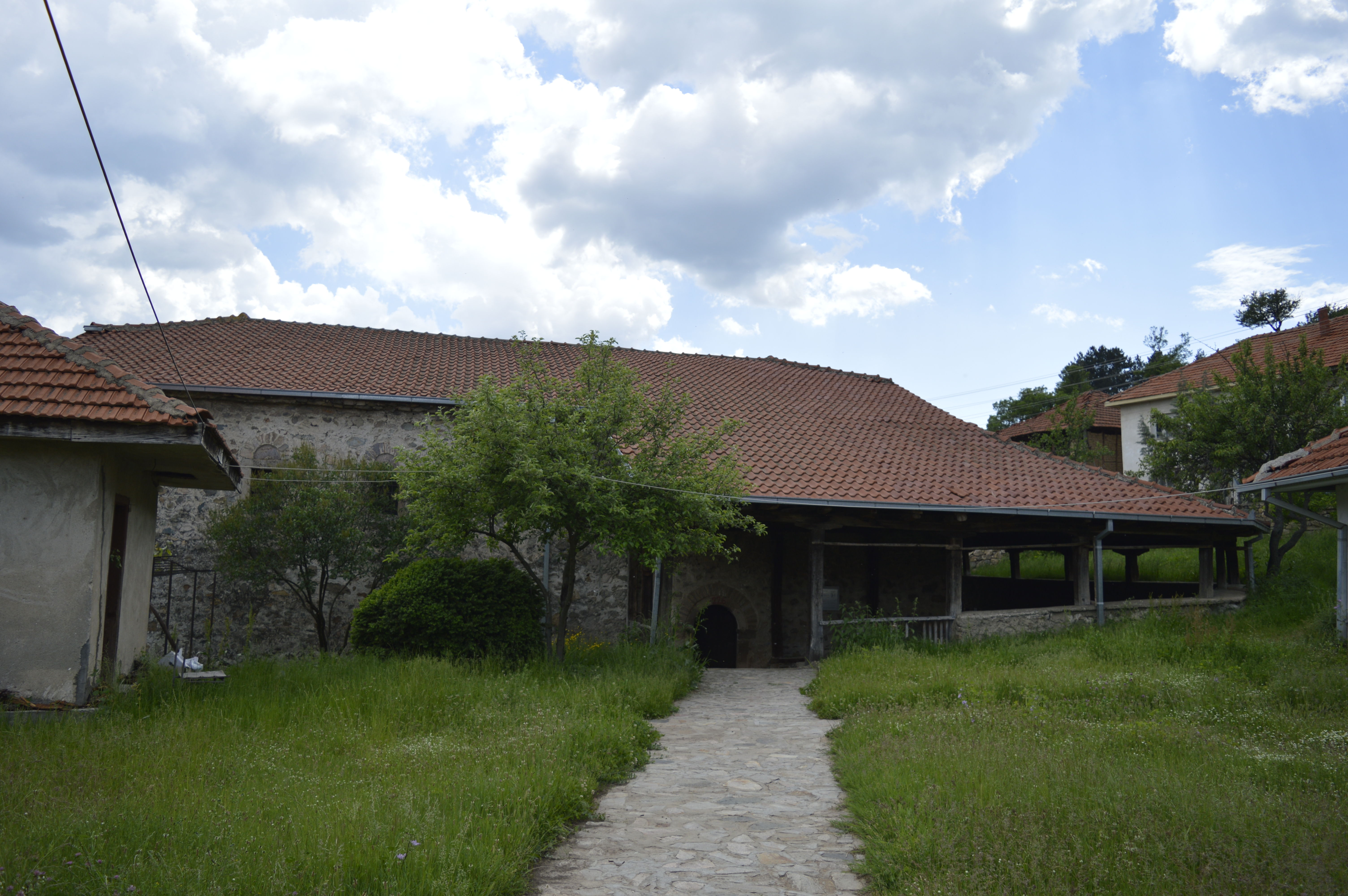 View of Sts. Constantine and Helena Church in the village Razlovci